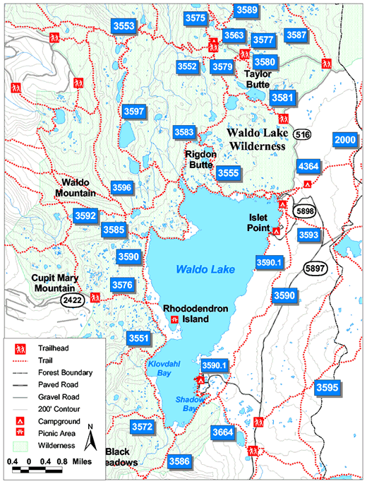 Map of Waldo Lake and surrounding area in the Cascade Range, Oregon, United States